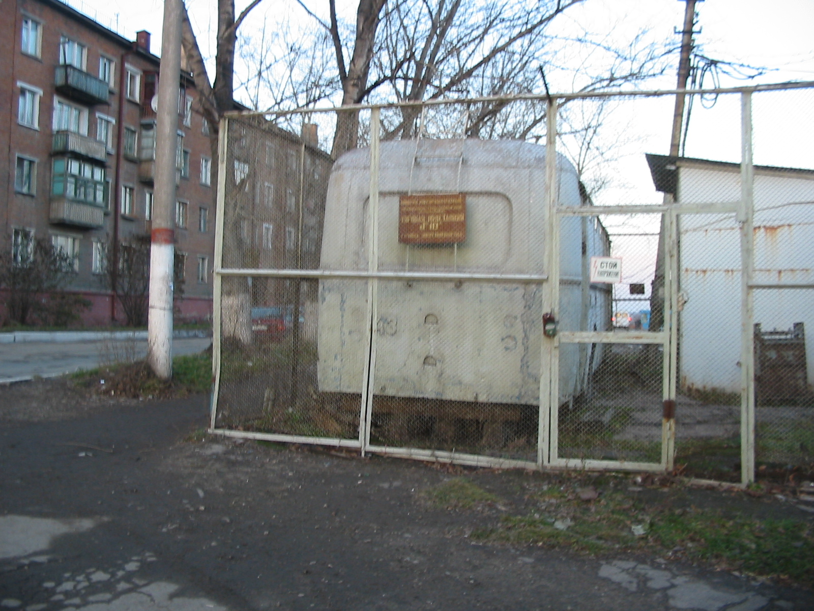 Tula trolleybus ZiU-5 43 at traction substation. It will be restored to memorial at trolleybus depot.